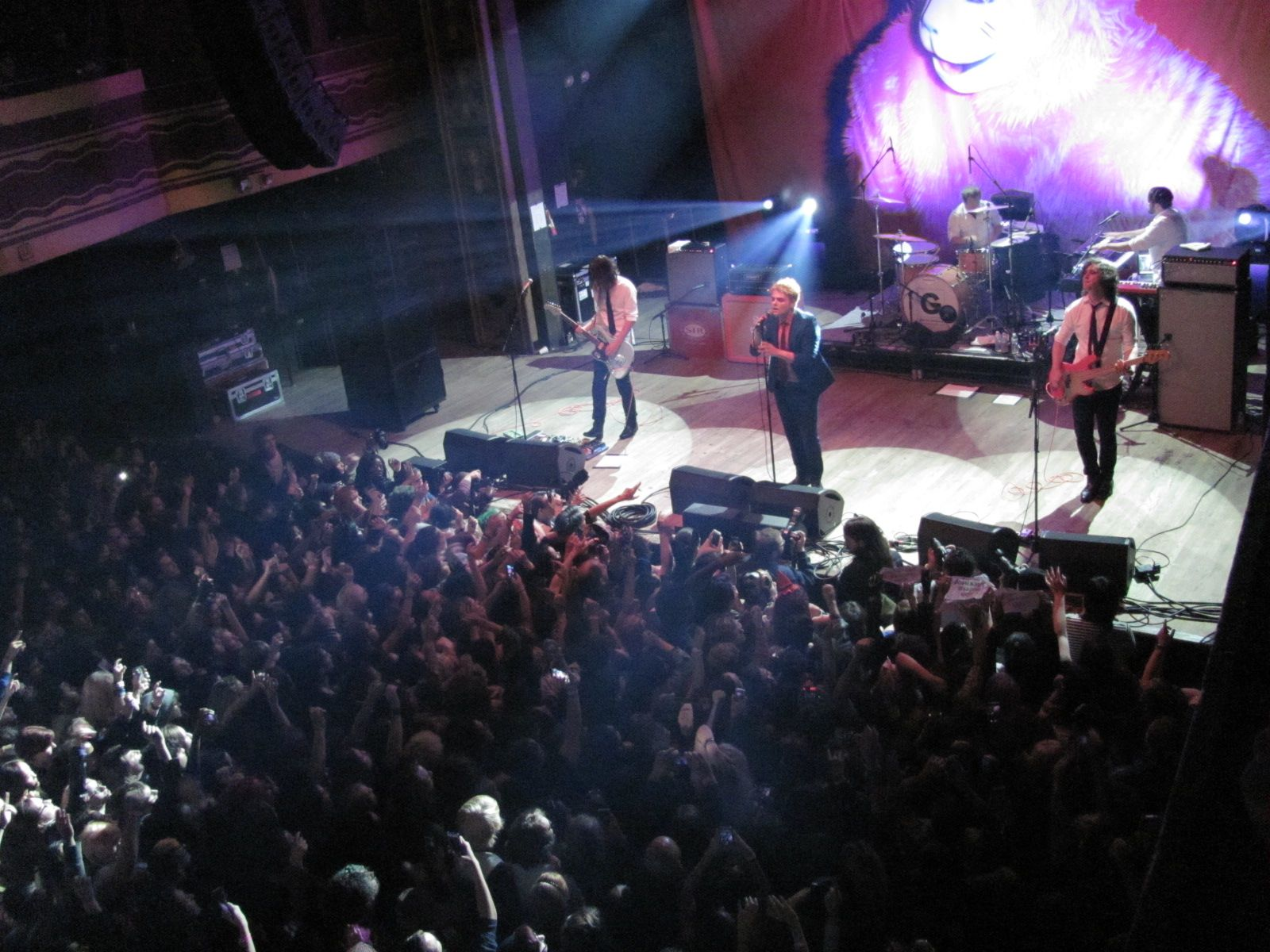 Gerard Way and his support band, The Hormones, performing at the Webster Hall in New York, United States, on October 23rd, 2014.